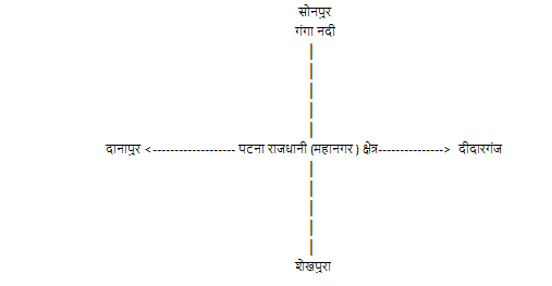 Patnametropolitanhindi